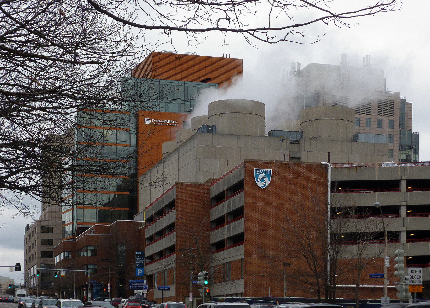 Brigham and Womens Hospital garage, the Medical Area Total Energy Plant, and the Dana-Farber Cancer Institute in March 2013